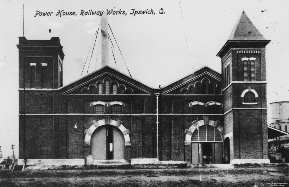 Power House at the Ipswich Railway Workshops, Ipswich, Queensland,ca. 1914 Postcard image of the Power House at the Ipswich Railway Works in Ipswich, Queensland in ca. 1914.